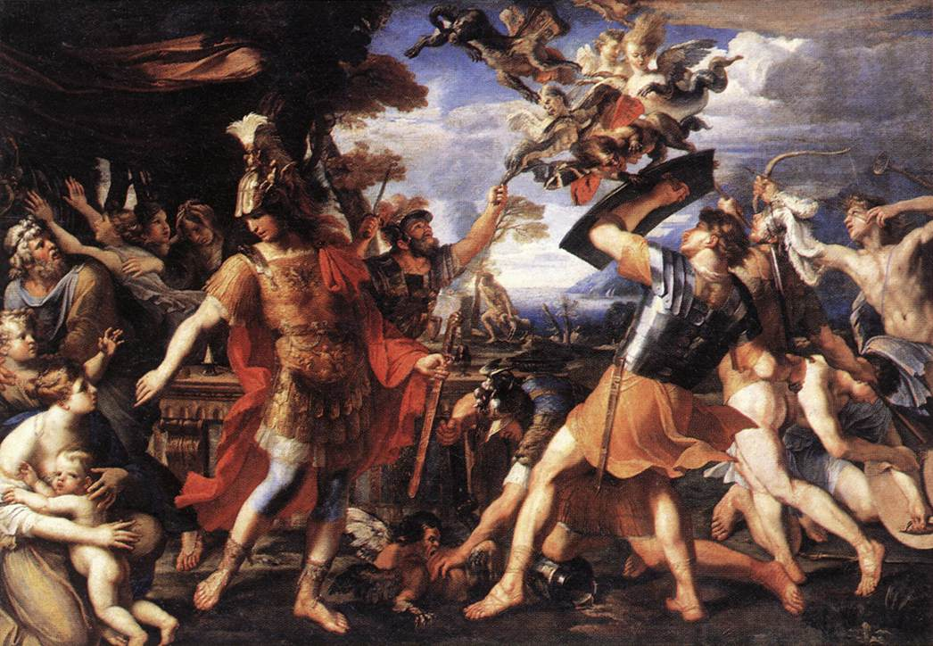 Aeneas and his Companions Fighting the Harpies